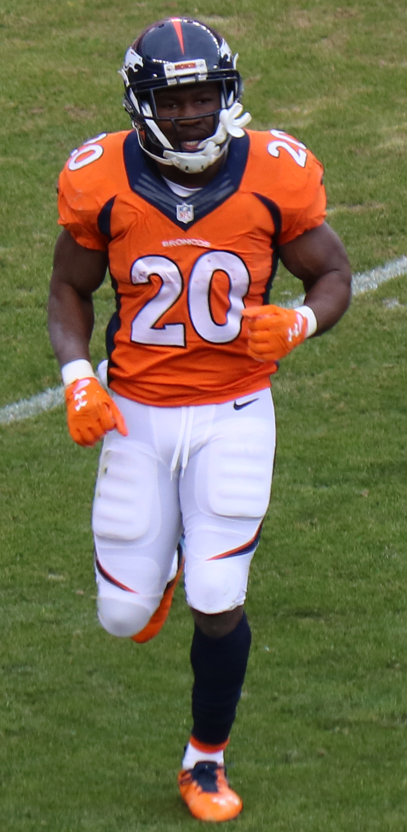 Justin Forsett, a player on the National Football League.